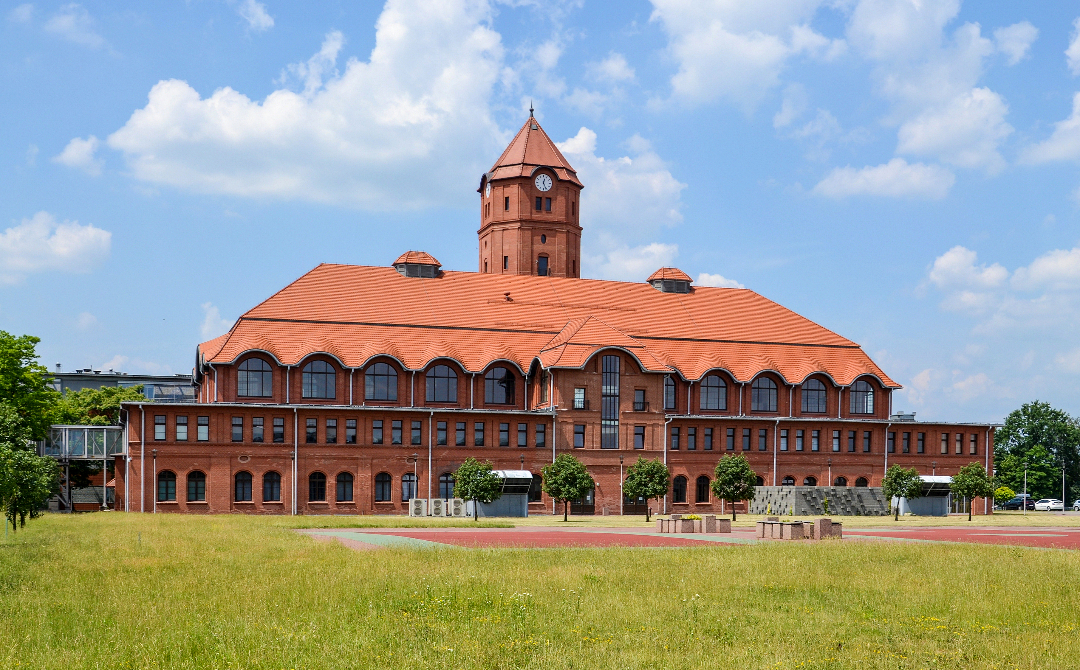 Gliwice coal mine, Upper Silesia